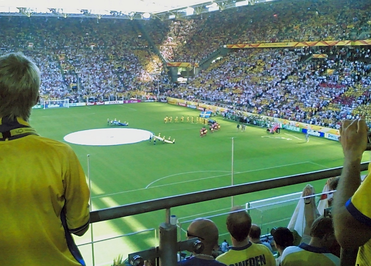 Dortmund, Germany: FIFA World Cup 2006 Trinidad and Tobago vs. Sweden